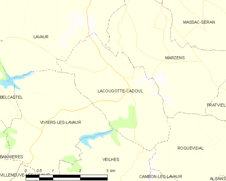 Map of French municipality Lacougotte-Cadoul